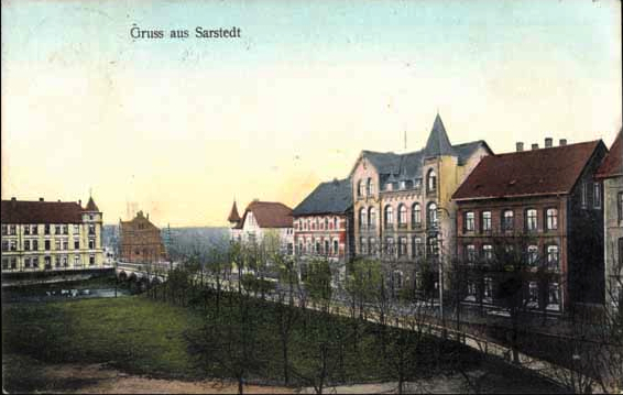 This post card has been circulated in 1906 and shows the so called May meadow of Sarstedt near the railway station